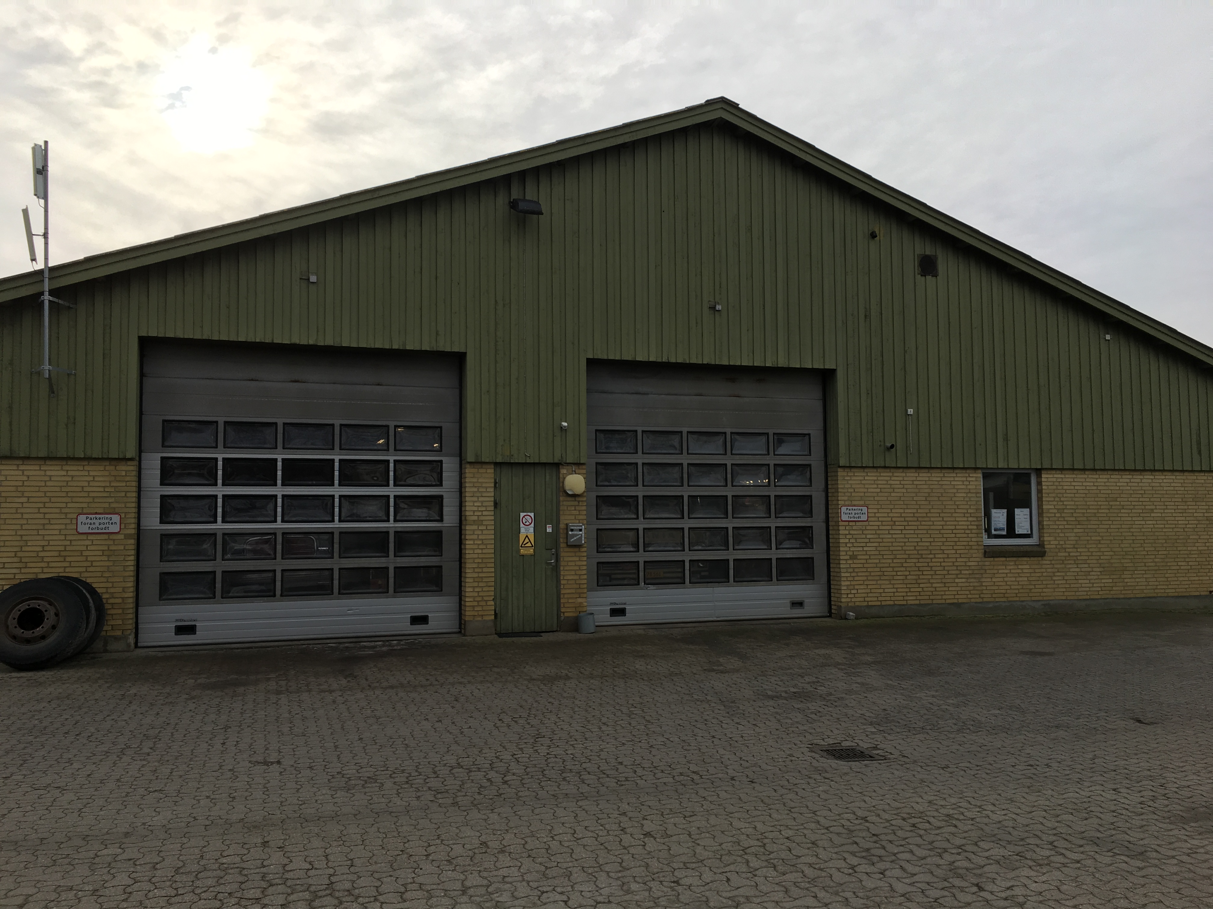 Building at Danmarks Busmuseum